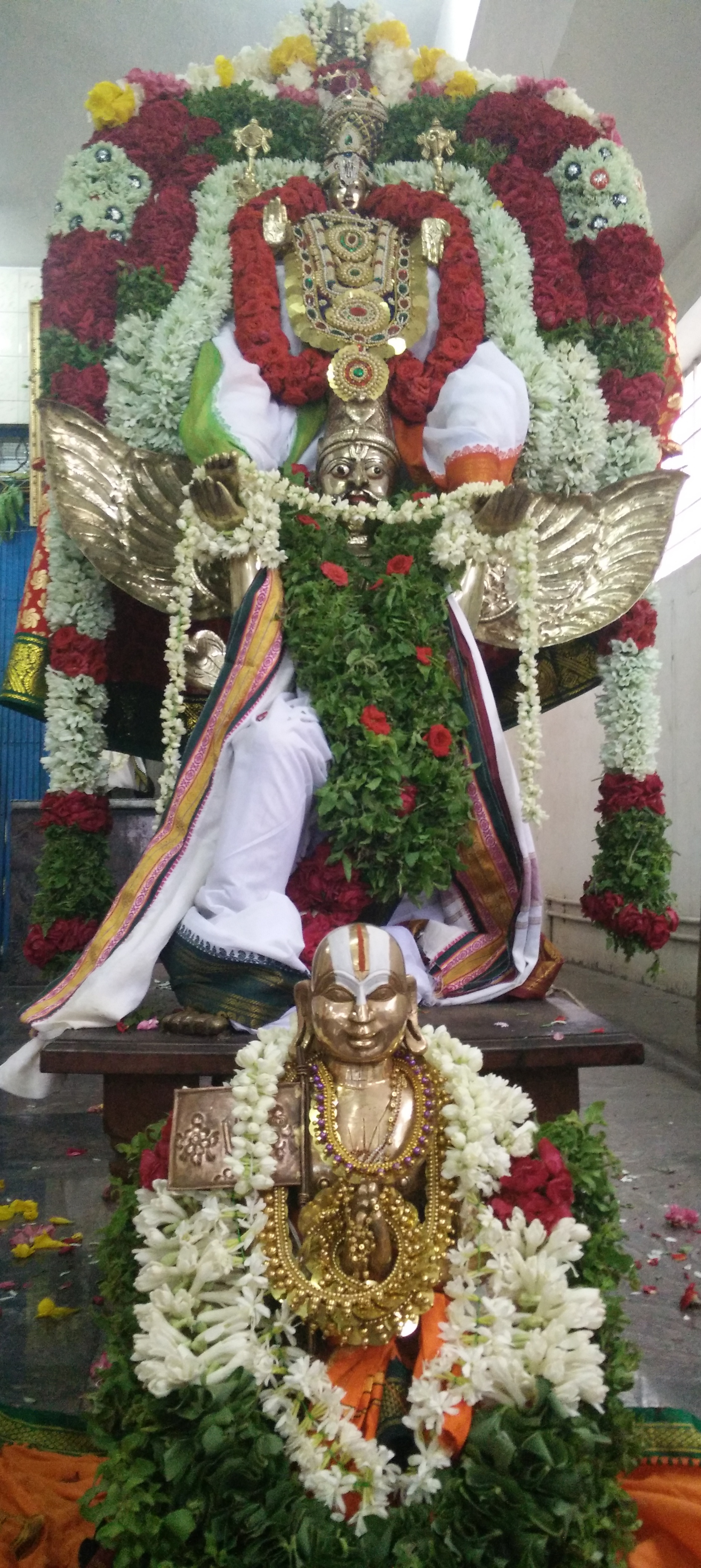 sri devi poo devi sri venkata ramana swamy1